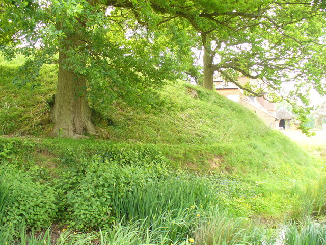 Abinger Motte Historic former hill settlement about 20 feet high, sited in the grounds of Abinger Manor. A glimpse of it is possible from the footpath. Also in the grounds is a reported mesolithic pit.